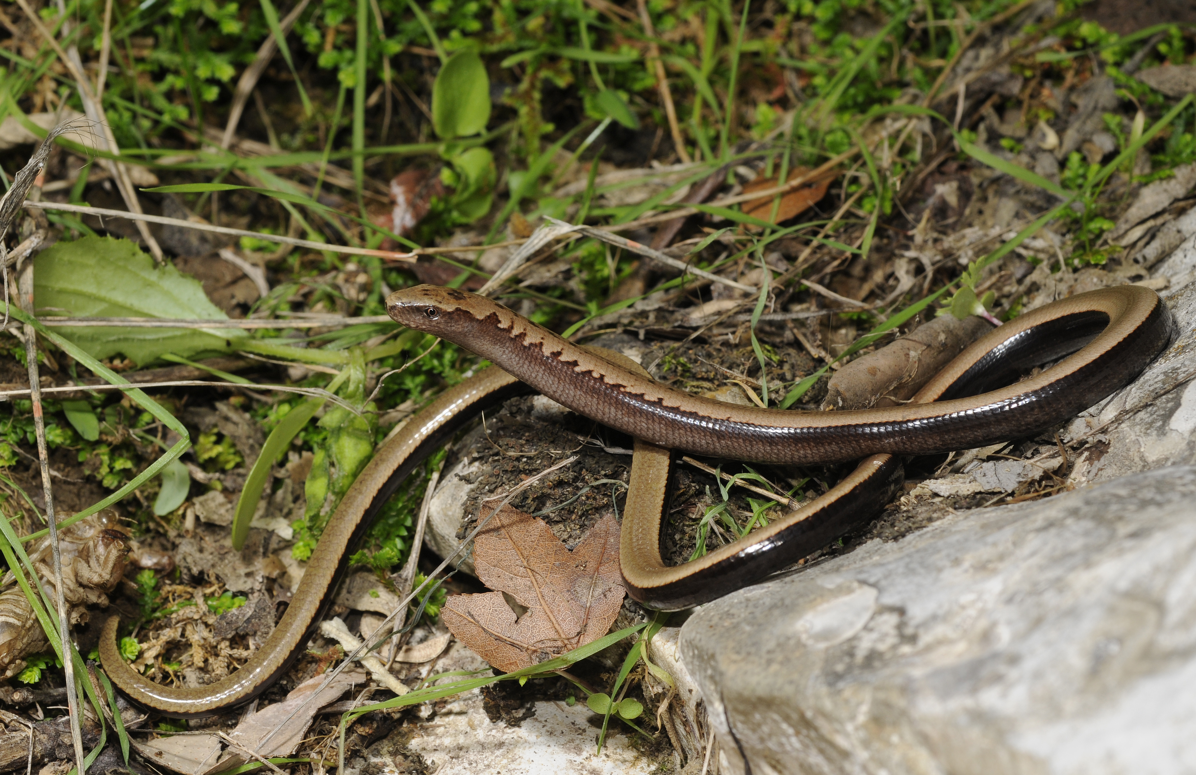 Anguis cephallonicus